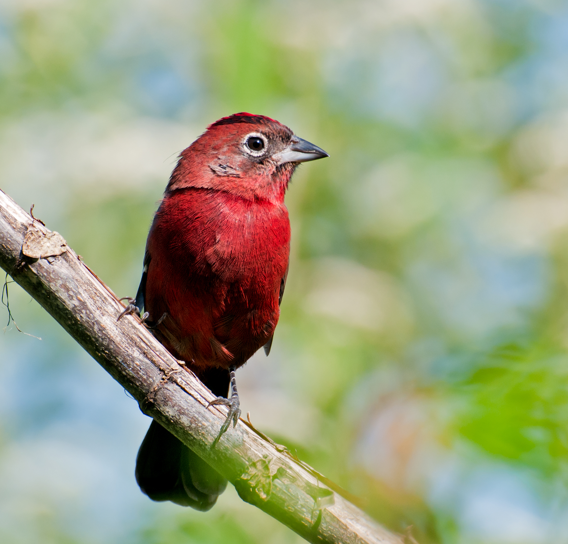 A male Red-crested Finch in Piraju, São Paulo, Brazil.